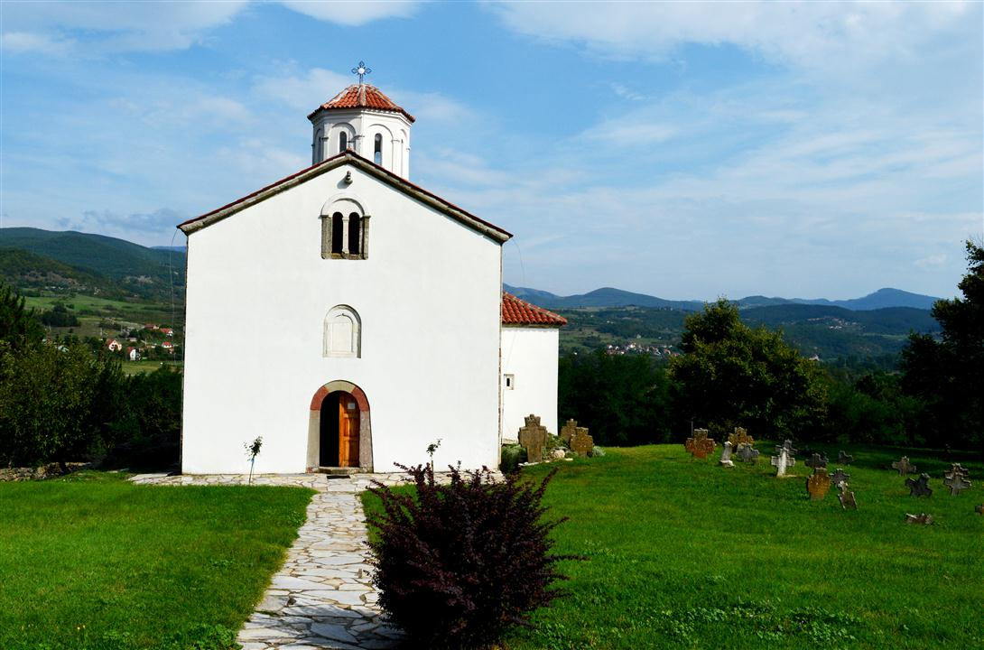 Raska Municipality - Gnjilica